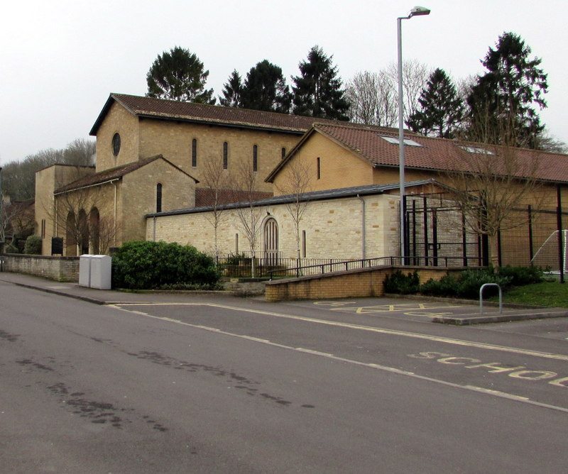 Church of our Lady and St Alphege, Oldfield Park, Bath